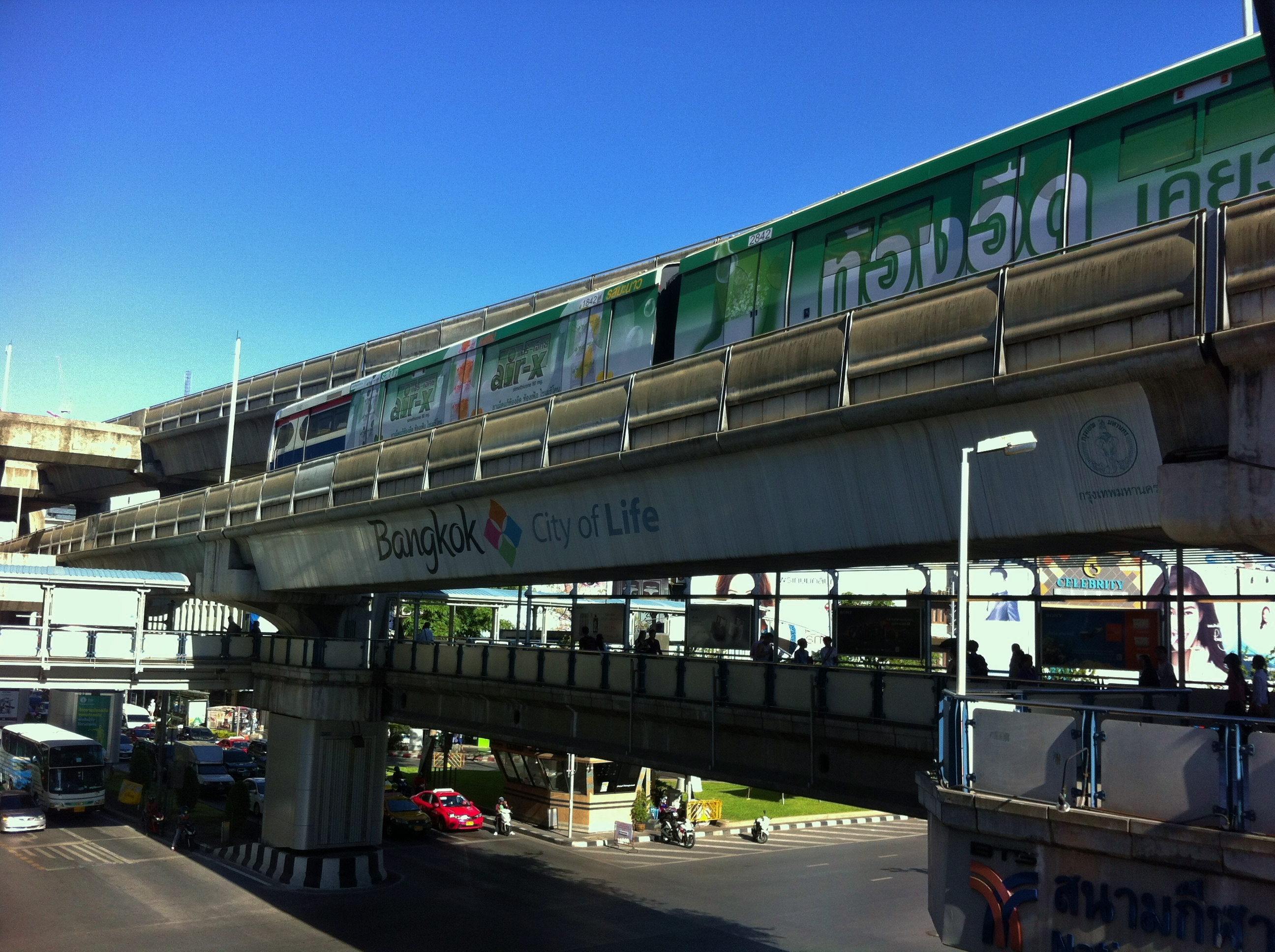 BTS Sky Train over Prathum Wan Intersection